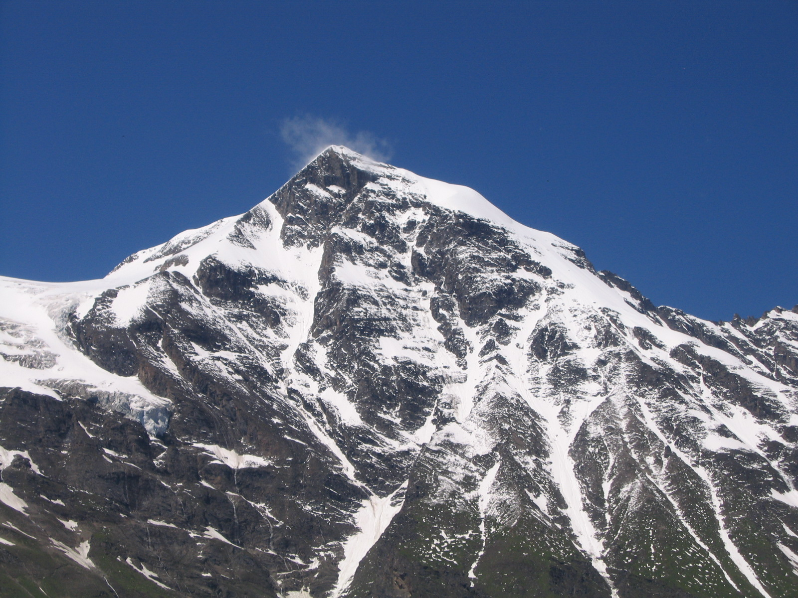 The Großes Wiesbachhorn (3,564 m) in the High Tauern in the Austrian Alps, taken from the entrance to the Großglockner High Alpine Road toll section.